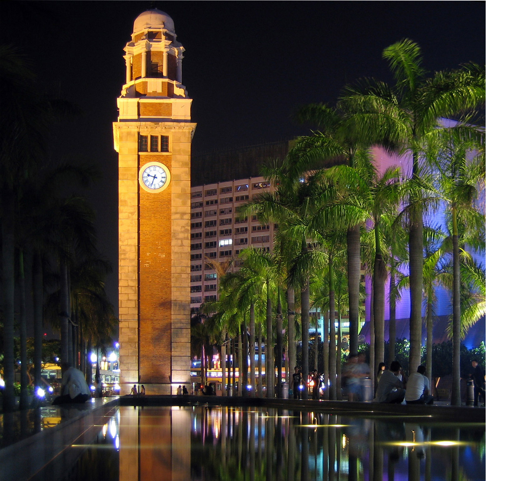 Former Kowloon-Canton Railway Clock Tower, Kowloon, Hong Kong